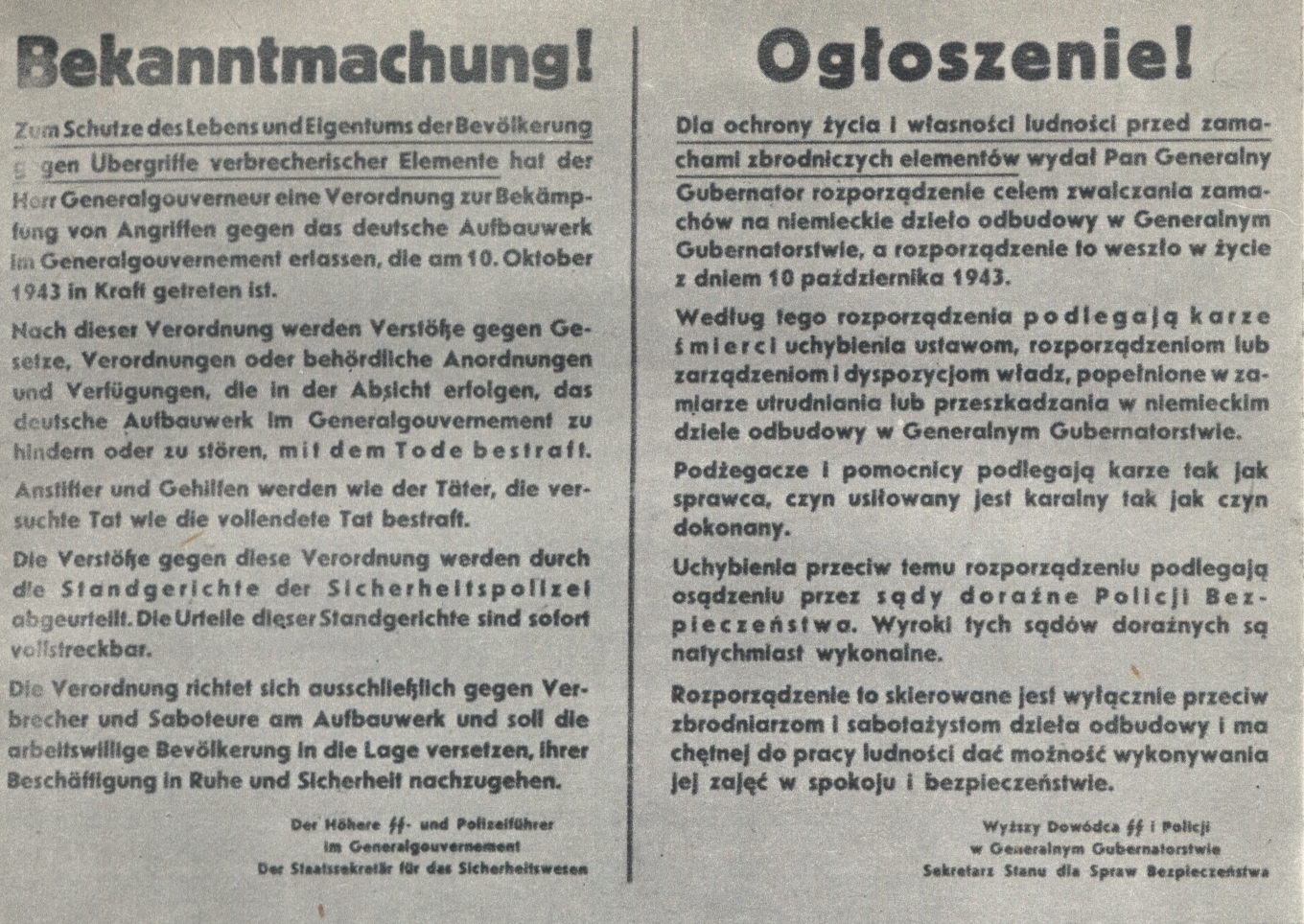 German poster in occupied Poland (from October 1943), announces coming into force the “Law on counteracting the attempts to jeopardize German Reconstruction Plan in General Gouvernment”. According to this law all such “attempts” were punishable by death. This Law was issued by general governor Hans Frank. The poster is signed by Higher SS and Police Leader in General Gouvernment.